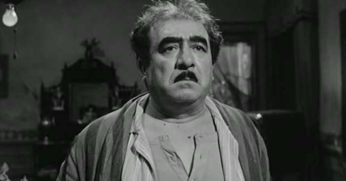 Screenshot from the film Sedotta e abbandonata (1964)